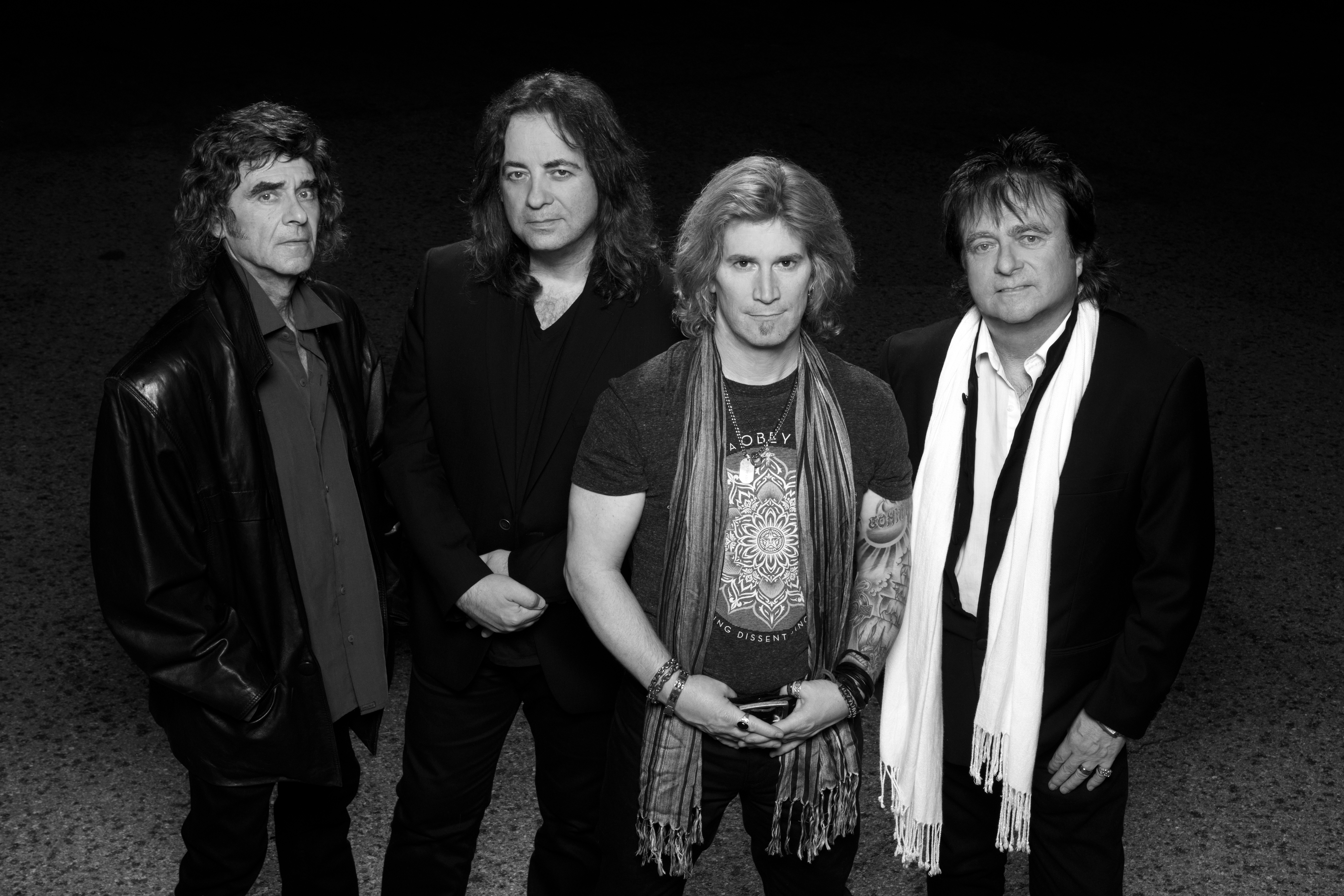 Group shot of 2013 Lineup.